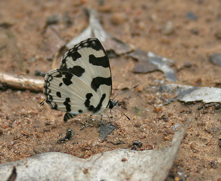 Angled Pierrot Caleta caleta at Talakona forest, in Chittoor District of Andhra Pradesh, India.